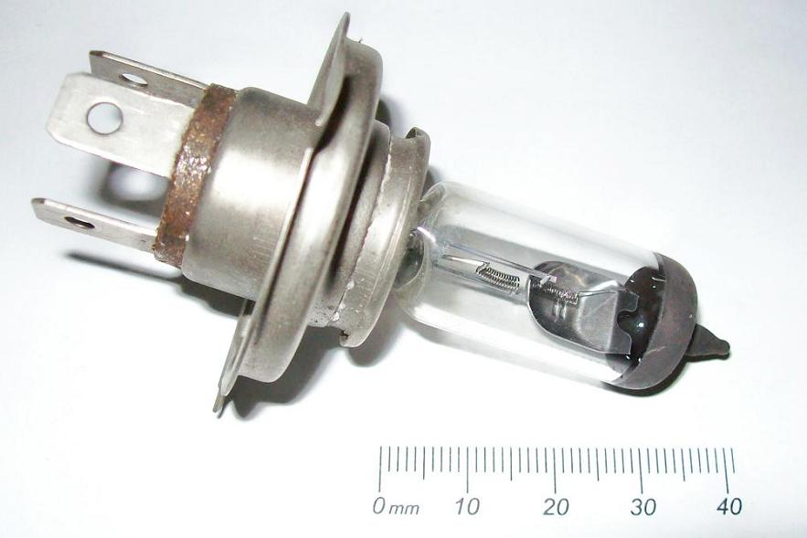 BILUX-Lampe, incandescent lamp with 2 helixes